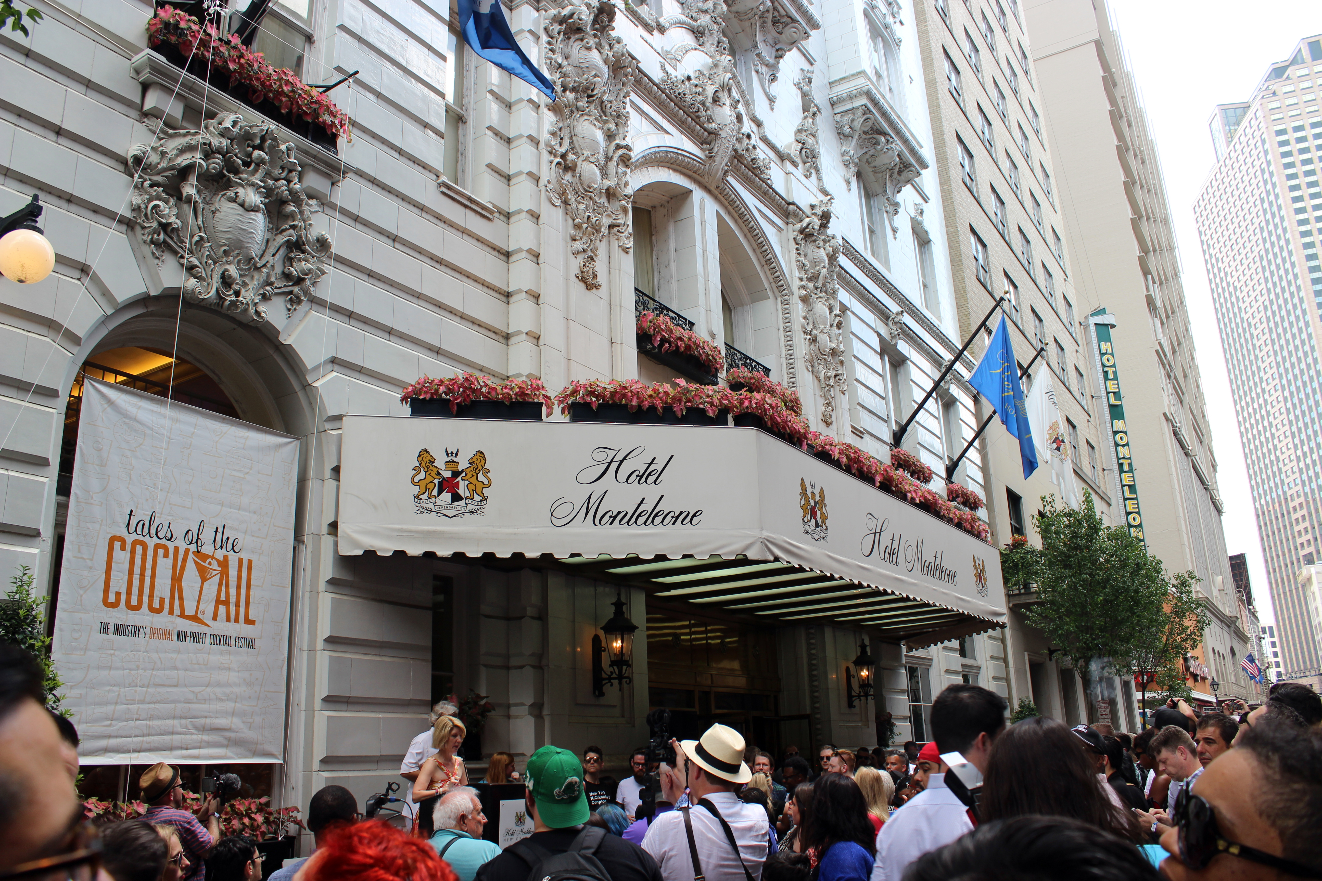 Ann Tuennerman speaks to Tales of the Cocktail attendants outside the Hotel Monteleone in New Orleans, LA